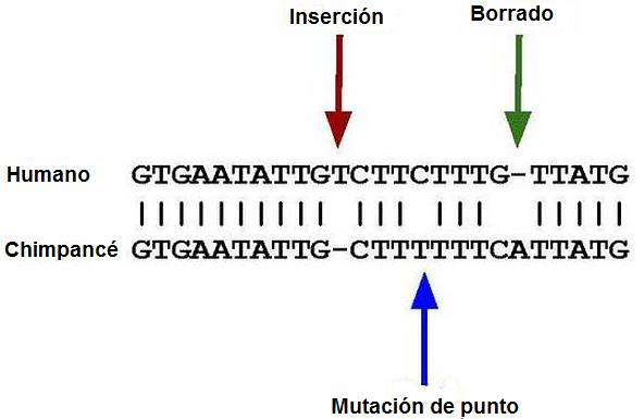 Modified image file, converted simple English text into Spanish